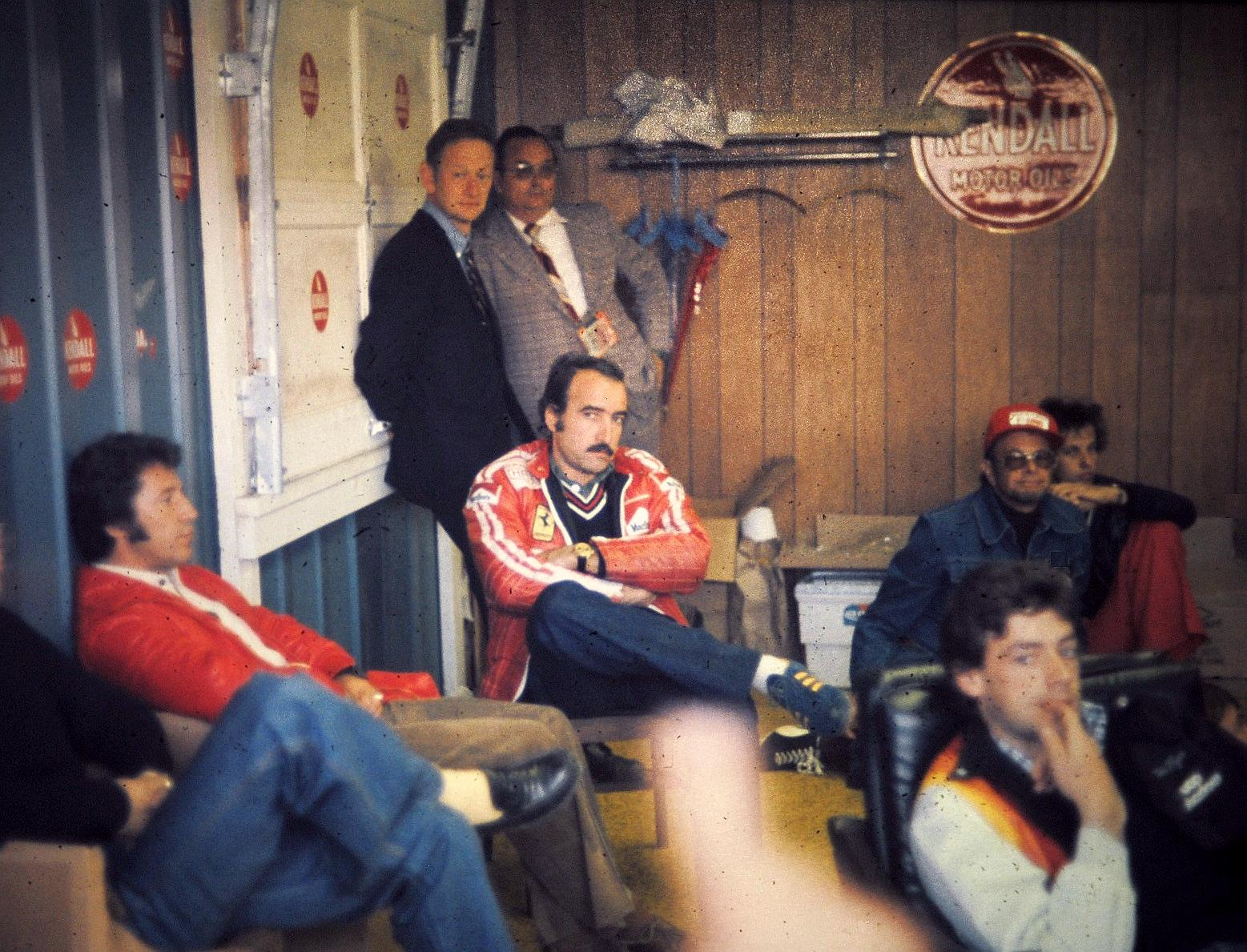 The official driver meeting of the 1975 United States Grand Prix, including drivers such as Mario Andretti, Clay Regazzoni and Tom Pryce.